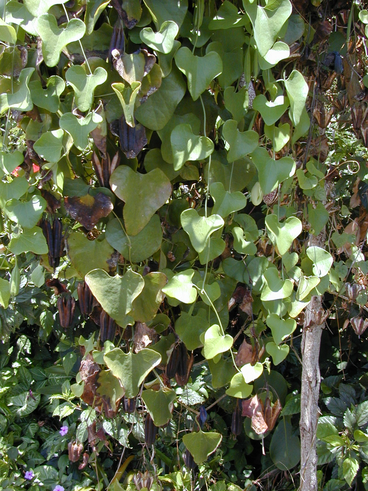 Aristolochia littoralis (leaves). Location: Maui, Kahului